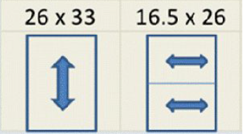 Loosening demagnification in one direction would result in an original 26 X 33 field being split into two 26 X 16.5 fields. Ref: Proc. SPIE 8522, 852211 (2012).